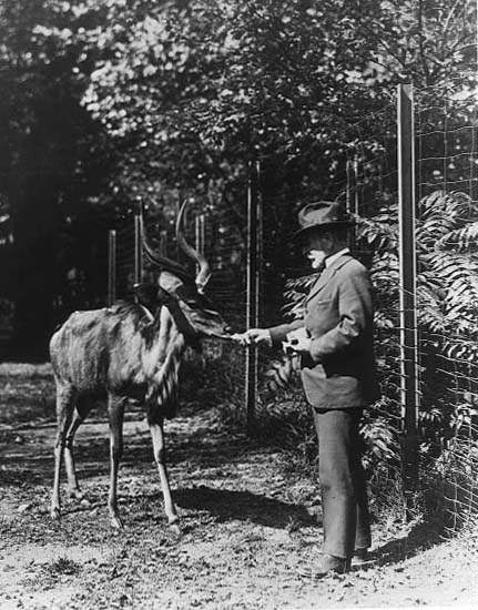 William Hornaday, a leading naturalist and longtime crusader for wildlife conservation, was photographed here in 1920 feeding one of his charges, a greater kudo, in the New York Zoological Park (popularly called the Bronx Zoo because of its location).